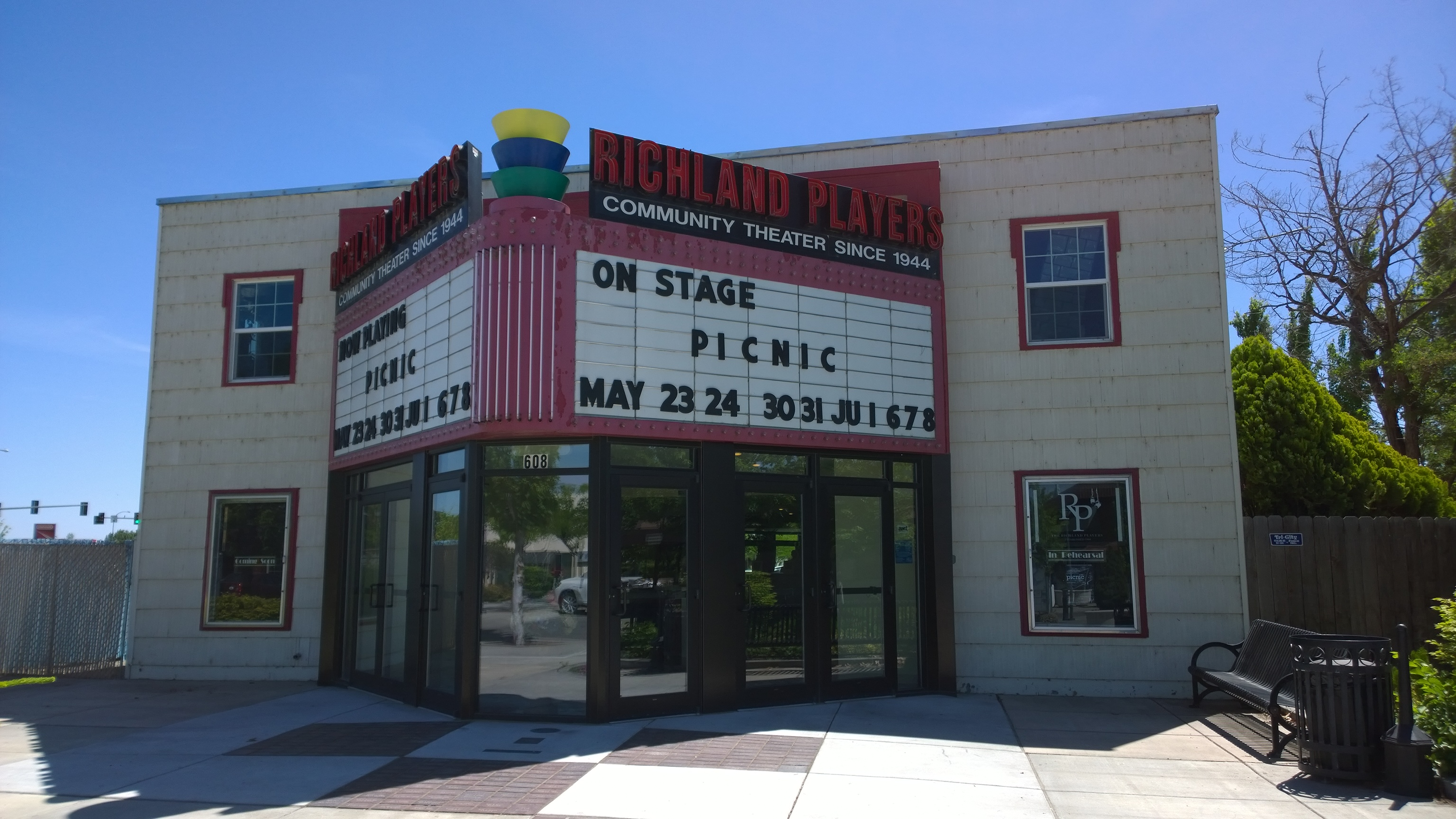 The Richland Players Theater located at 608 The Pkwy, Richland, WA 99352.